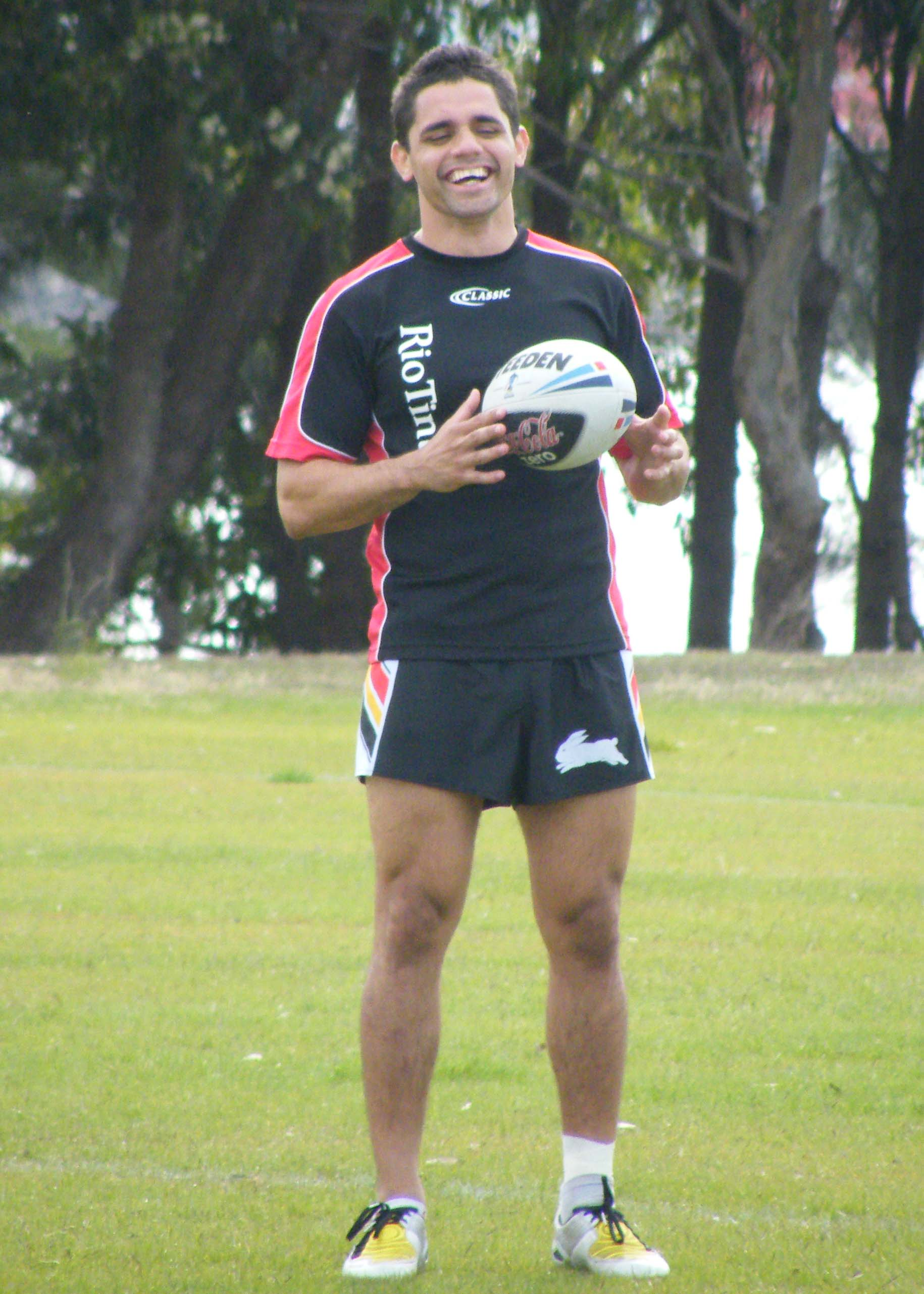 Training Session - Aboriginal Dreamtime Team - RLWC 2008.